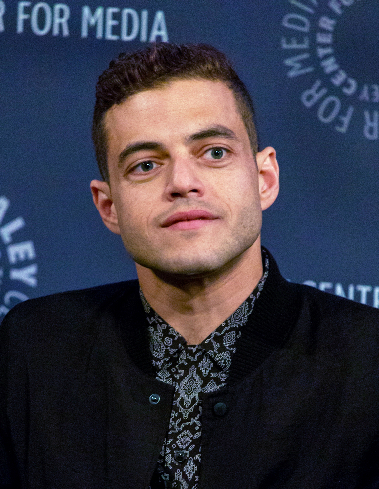 Rami Malek at PaleyFest, New York in 2015